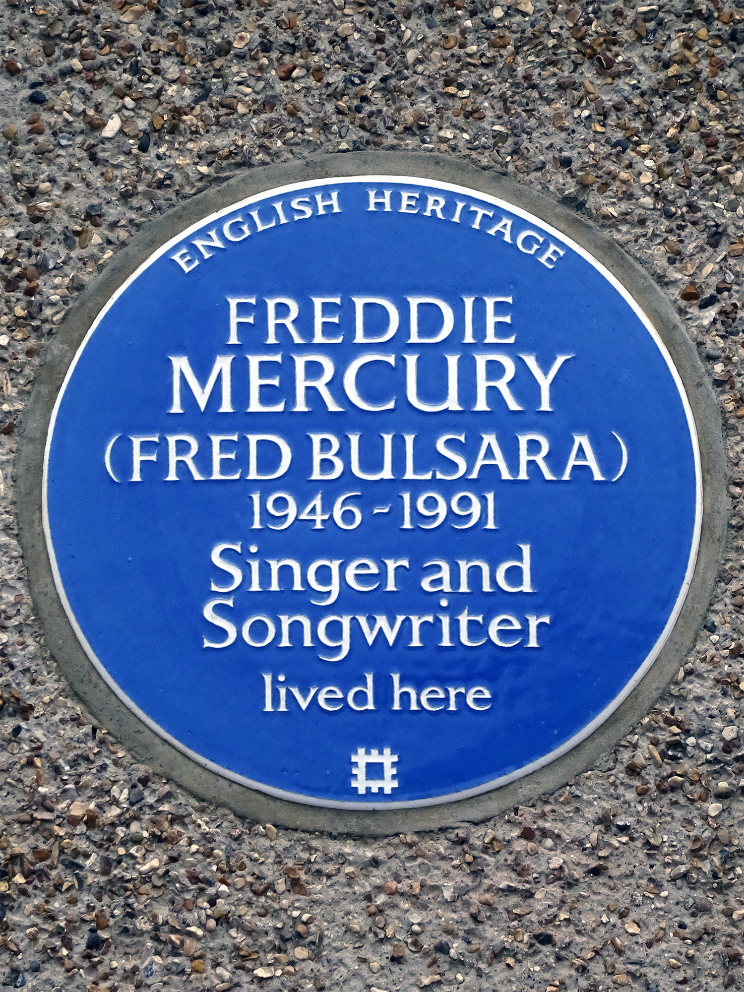 Blue plaque erected on 1st September 2016 by English Heritage at 22 Gladstone Avenue, Feltham, London TW14 9LL, London Borough of Hounslow